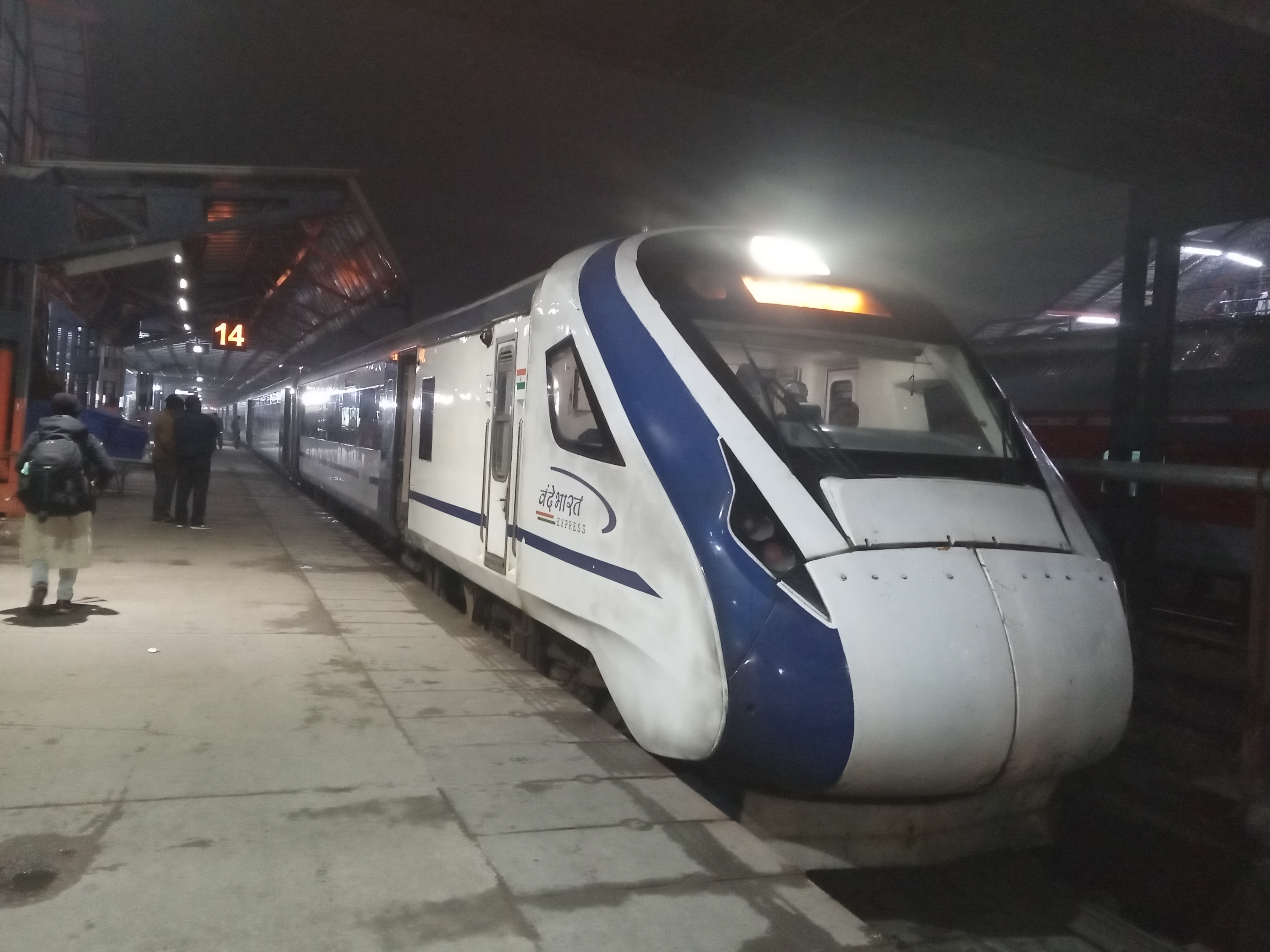 Vande Bharat express for Katra